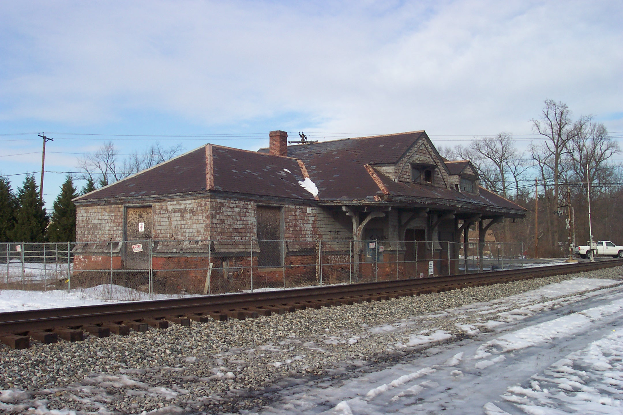 An image of the Aberdeen Station stop on the B&O Railroad. The station house was built in the Queen Anne architectural style. The site has fallen into a state of disrepair since the railroad closed. This site was selected for Endangered Maryland in 2007. This site was selected for a Heritage Fund Grant in 2004, 2007, 2011.